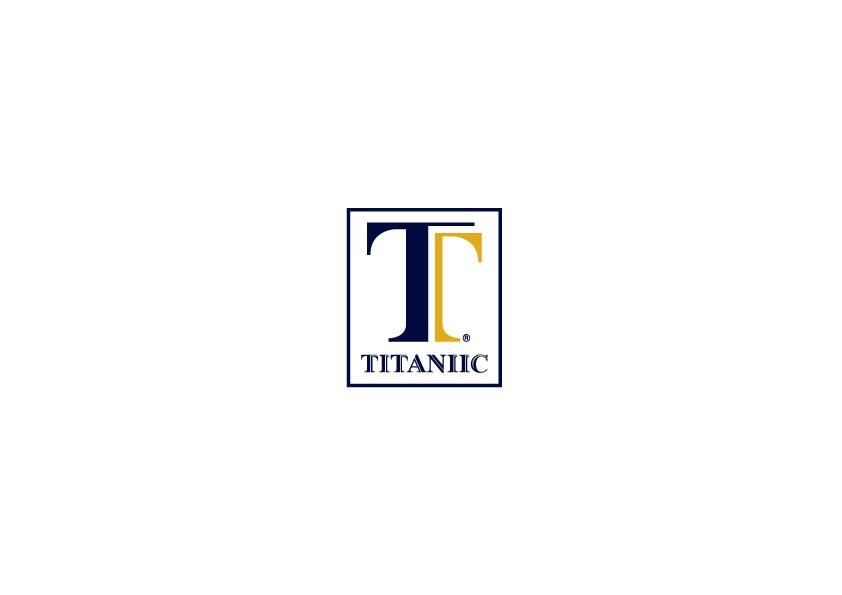 Logo project TITANIIC year 2016